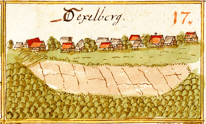 View of Sechselberg, Althütte, from the forest register books created by Andreas Kieser